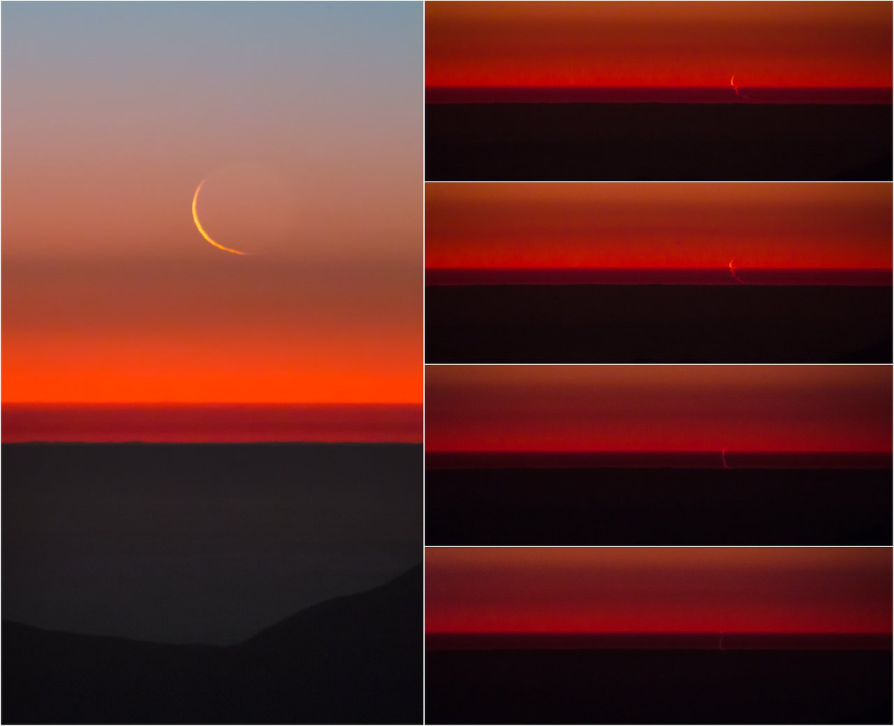 The famously dry Atacama Desert may seem like an odd place for the Moon to take a dip — but in this intriguing image, taken by ESO Photo Ambassador Petr Horálek, it appears to do just that! Initially high, the crescent Moon slowly descends through the clear Chilean sky, before hitting the thickest parts of the atmosphere right above the horizon. It was here that a “rare theatre” began, said Horálek. The thin sliver of the Moon was optically distorted into a “weird, snaky shape” as its light passed through layers of different air densities, caused by different pressures, temperatures and humidities. The Moon lost its smooth curves and instead appeared as a rippling and squiggly zig-zag — “as if it were swimming”. The effect of the closely spaced layers in the atmosphere caused different parts of the Moon’s image to be refracted differently as it disappeared below the horizon. All these pictures were taken at ESO’s La Silla Observatory in Chile, facing the Pacific Ocean.